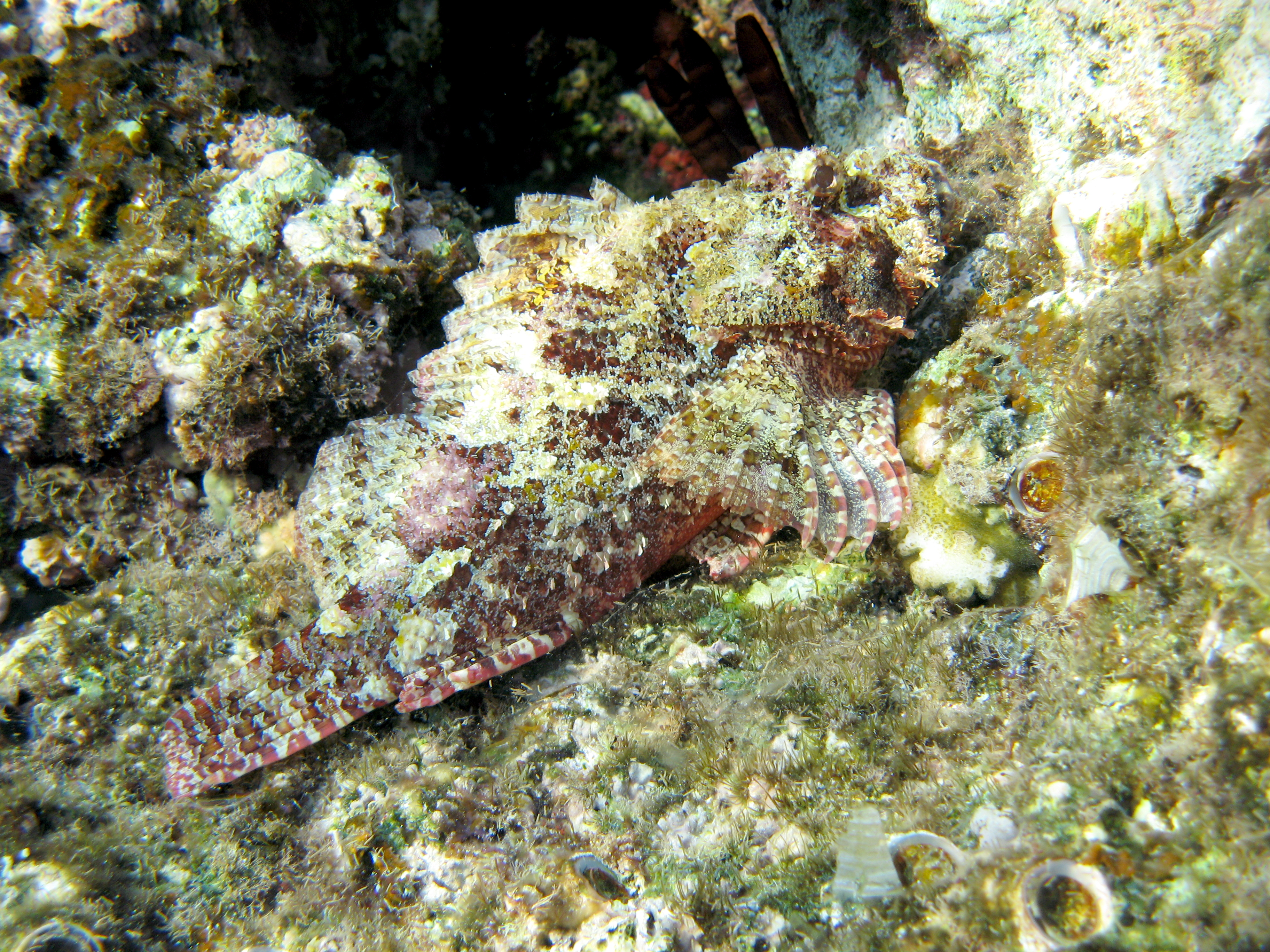 devil fish (Scorpaenopsis sp.)